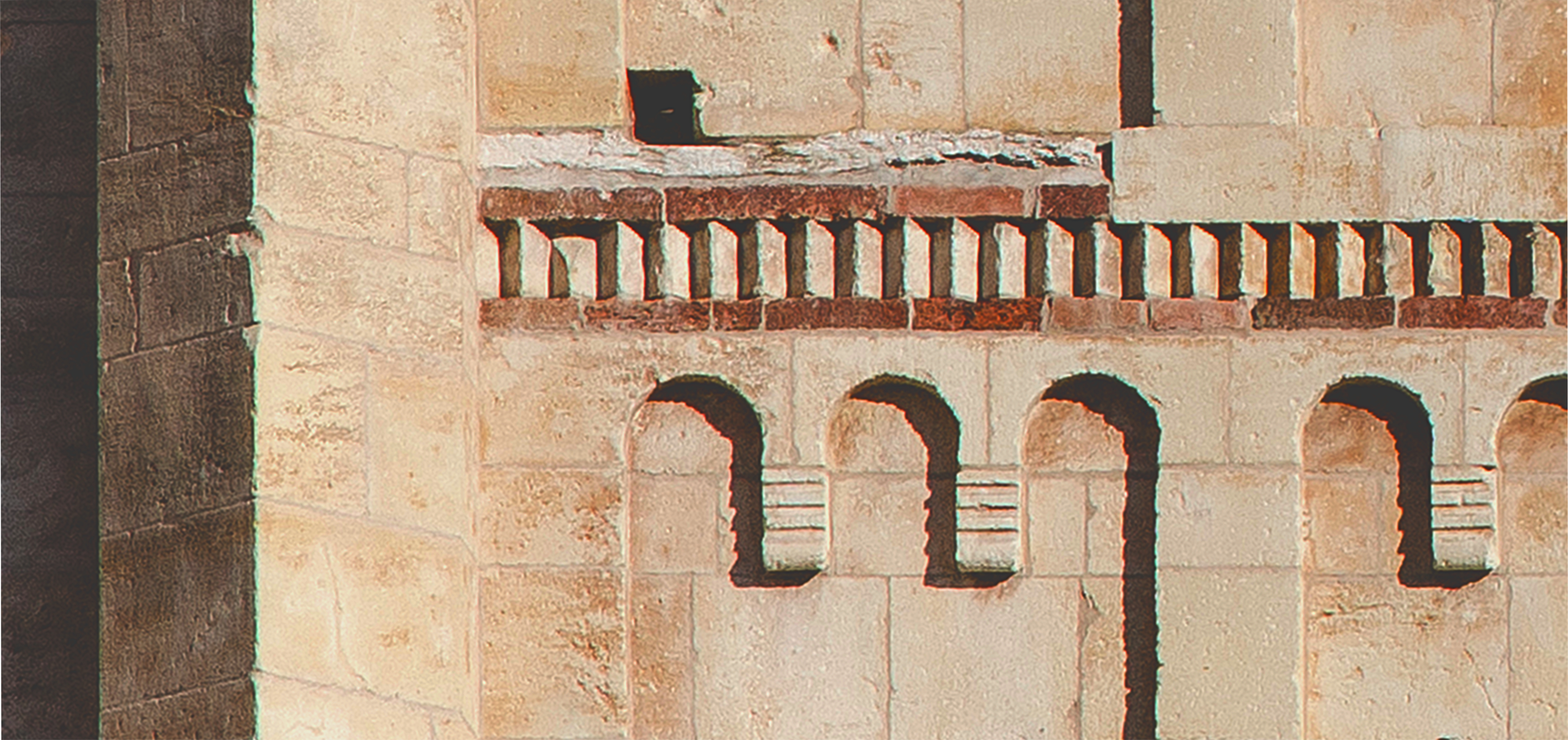 Basilica di San Zeno 02 (crop by Paolo Villa) Contrafforte, fregio archetti pensili, peducci e denti di sega.jpg Facade Buttresses Lombard bands and down small corbels, up frieze sawtoots, left right up side and vertical lesene. Basilica di San Zeno 02 (crop by Paolo Villa) Contrafforte, fregio ad archetti pensili, peducci e denti di sega - Frise de dents engrenage.jpg Contrafforte di facciata, fregio ad archetti pensili sostenuti centralmente da peducci, sopra dei appuntiti denti a sega, ai lati e sopra lesene (verticali) che si fondono con gli archetti.